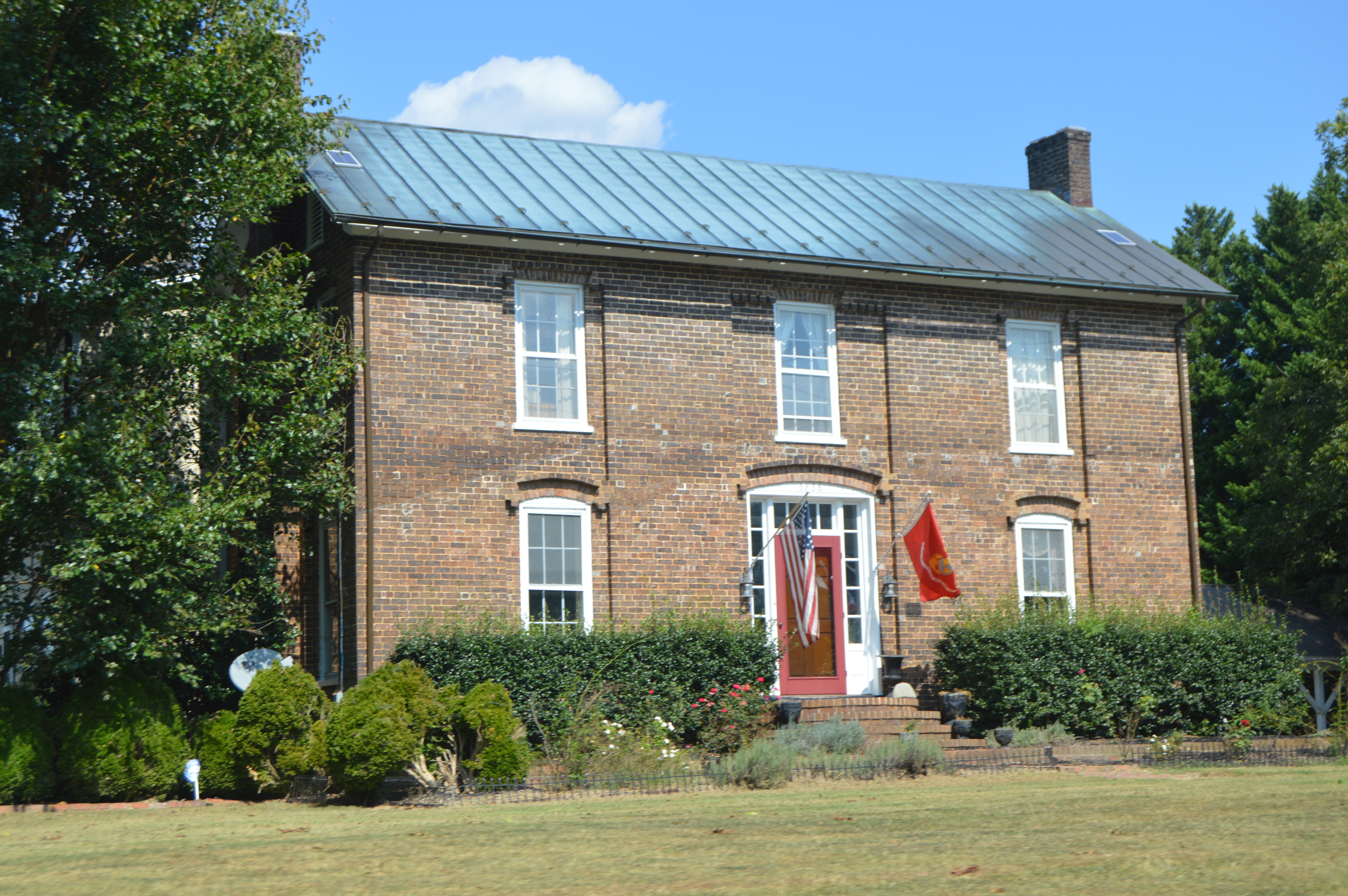 Front of the Simeon Wagoner House, located at 5838 NC 61 northwest of Gibsonville in Guilford County, North Carolina, United States. Built in 1861, it is listed on the National Register of Historic Places.